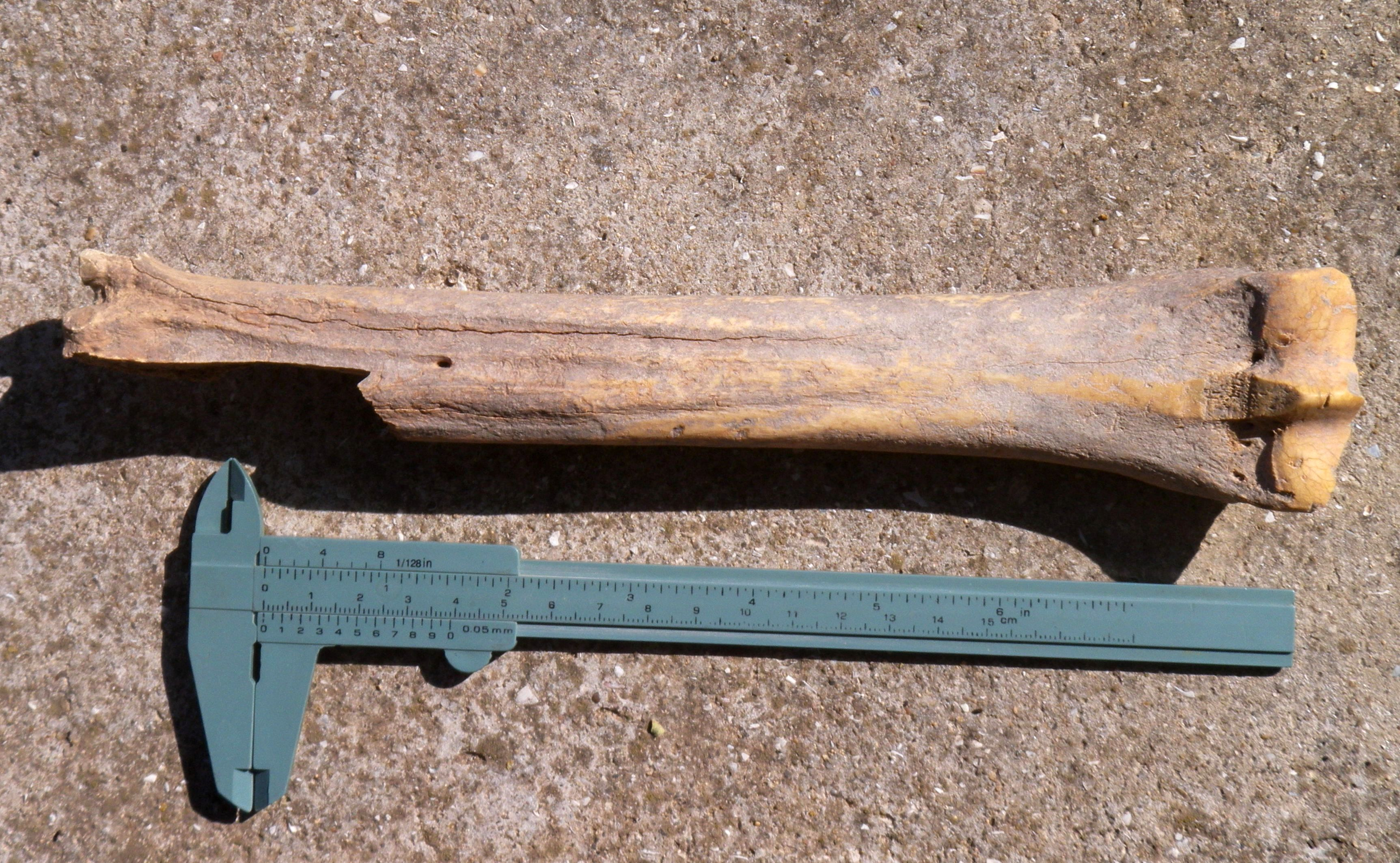 Artefact, archeology, archeozoology, skates, antiquity